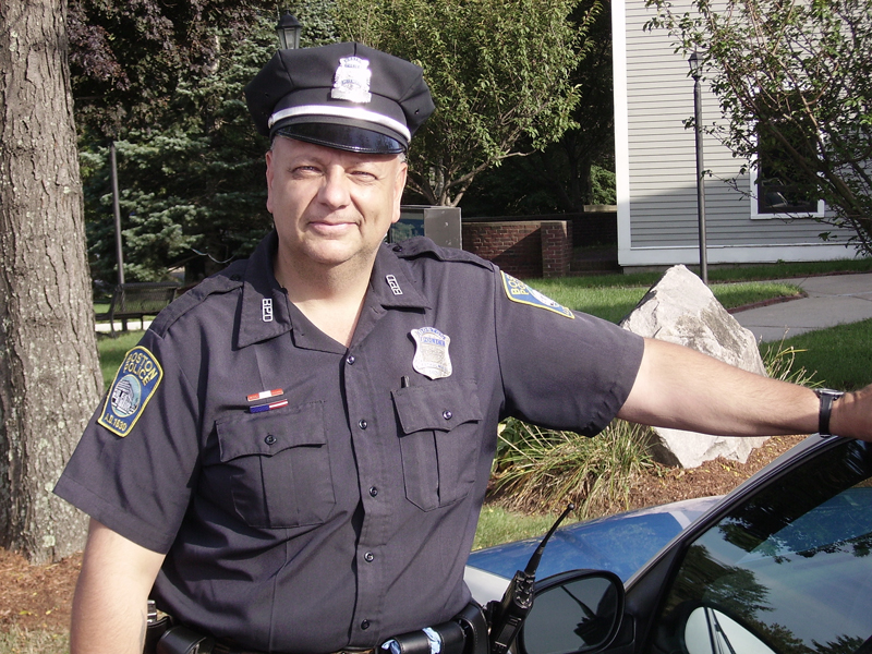 Dave Cataldo, Boston Police